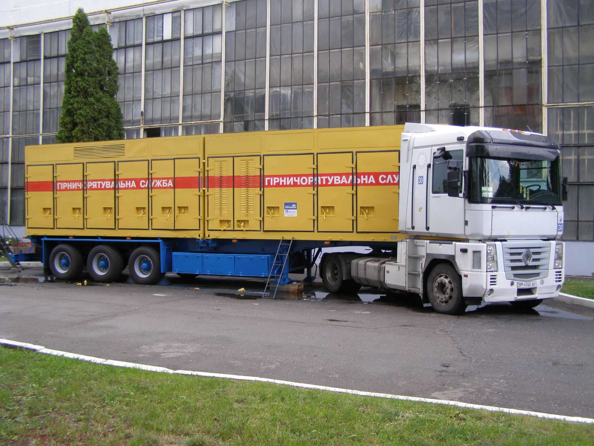 Nitrogen fire-fighting station